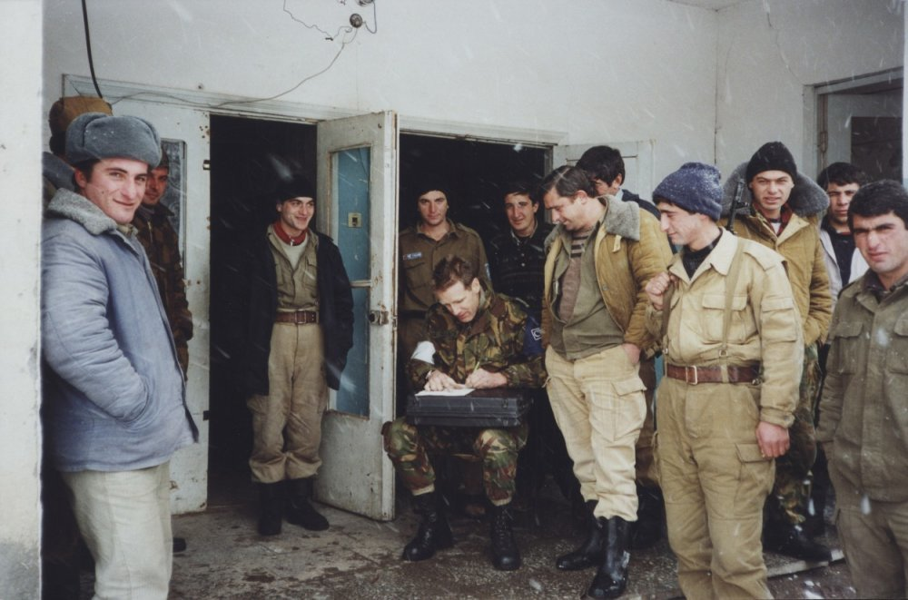 Major H.W. Verzijl (seated) visiting a Georgian military post in South Ossetie in early 1996. Verzijl records data on the strength and armament of the post.